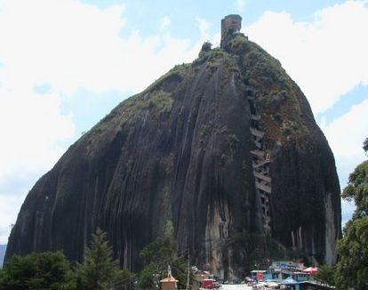 Picture of El Penol in Antioquia Colombia